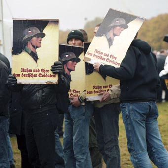 Protesters against the Wehrmacht exhibition in Munich on 12 October 2002, holding up glorified Wehrmacht propaganda